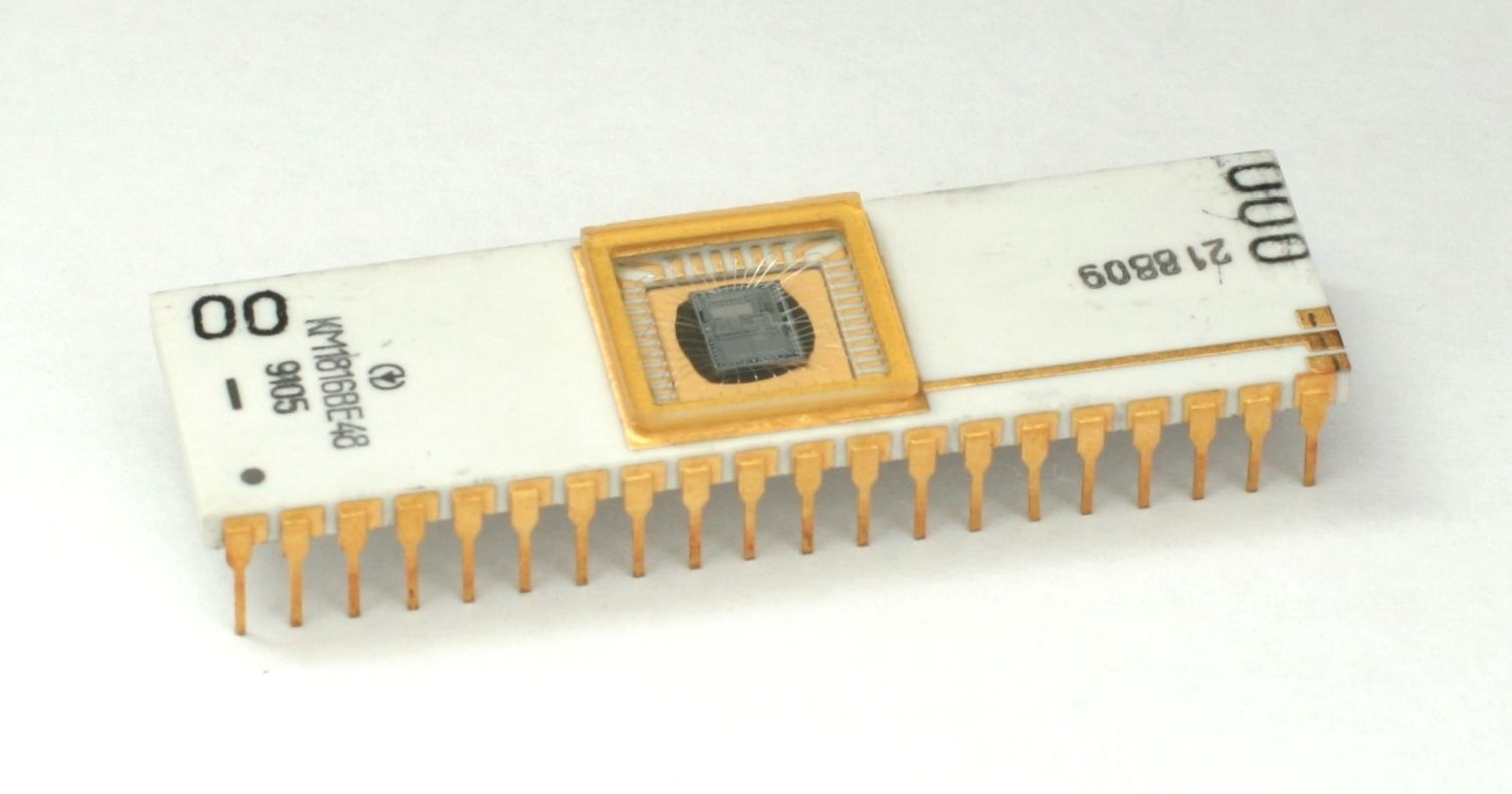 USSR MCU KM1816VE48 (Intel 8748 clone).